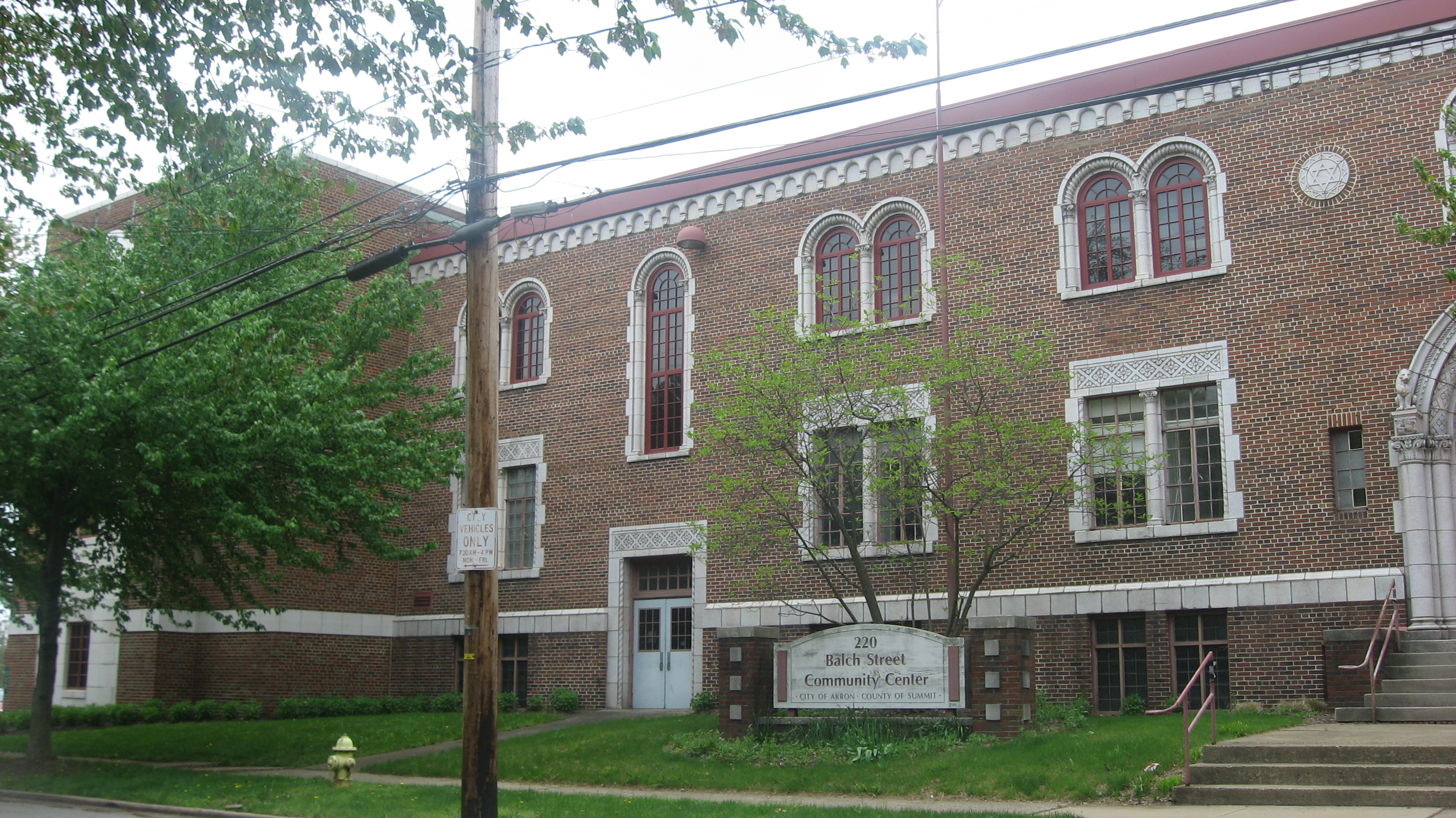 Front of the Akron Jewish Center (now a public community center), located at 220 Balch Street in Akron, Ohio, United States. Built in 1928, it is listed on the National Register of Historic Places.